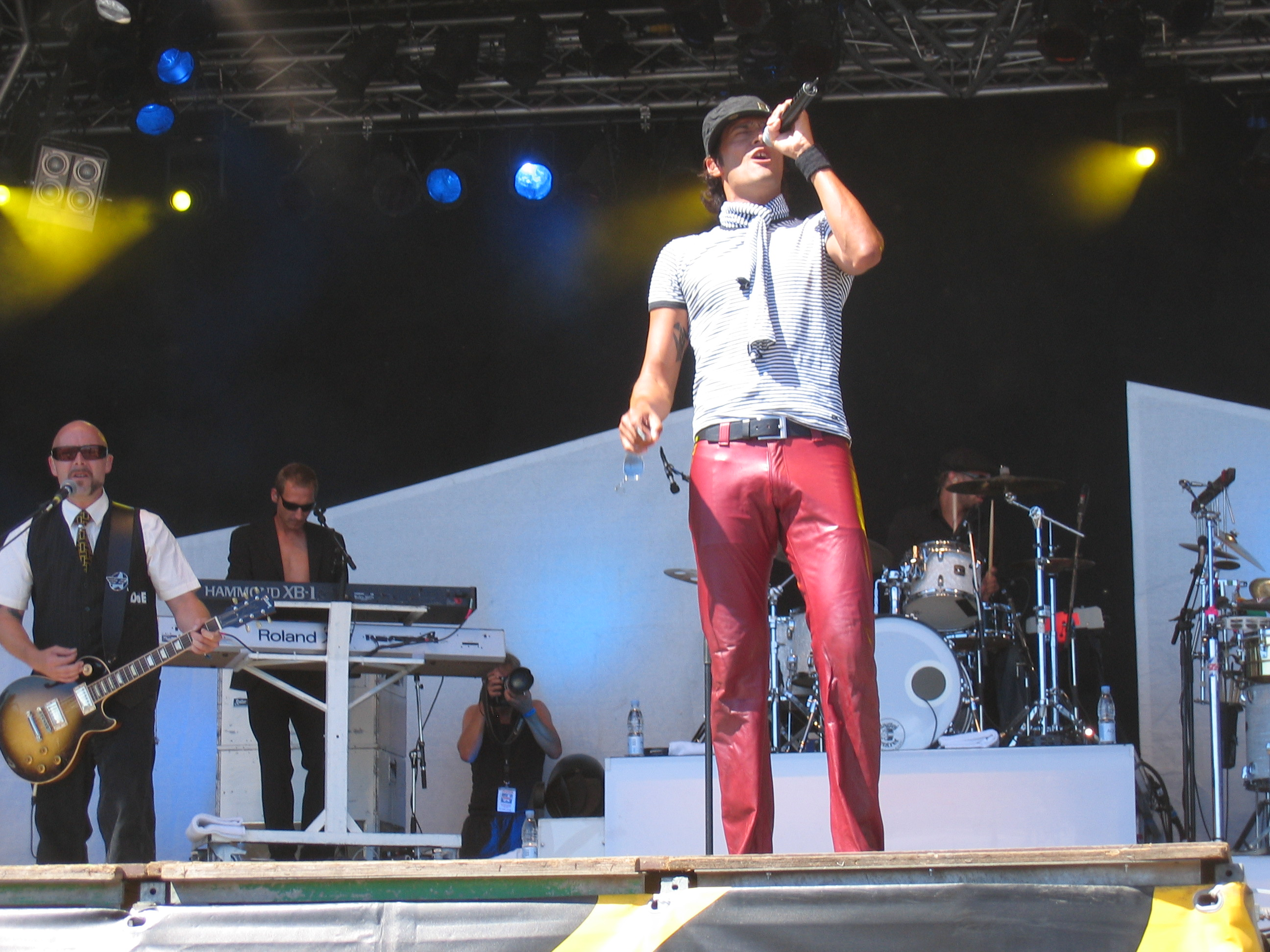 Picture of Jimmy Colding from the Danish band "Zididada". Taken on Langelandsfestivalen 2006, July 26th by User:Lhademmor.